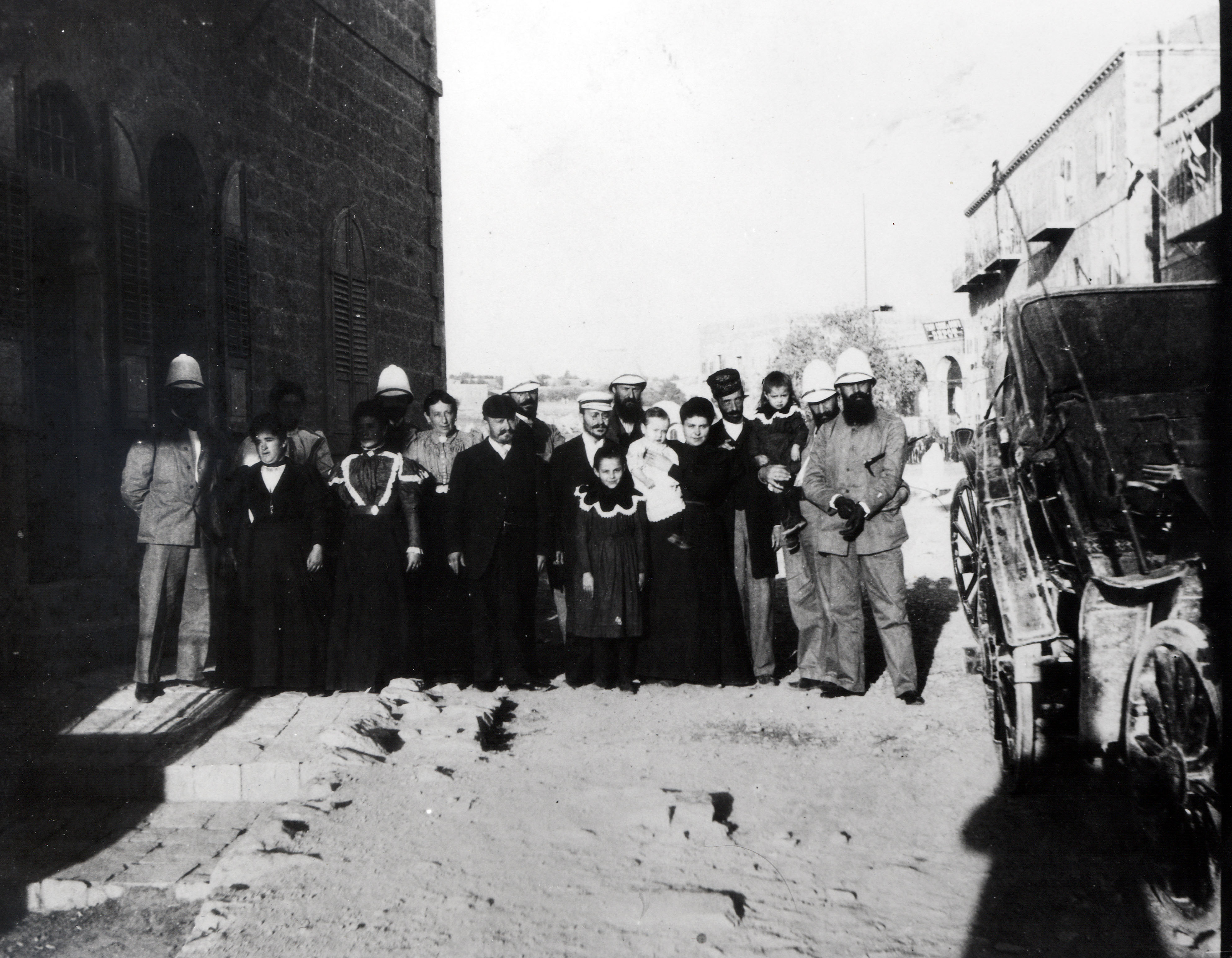 THEODOR HERZL (FAR RIGHT) BESIDE THE MARKS-STERN HOUSE IN JERUSALEM'S MAMILA NEIGHBORHOOD IN 1898. תאודור הרצל בירושלים ליד בית מרכס - שטרן בממילא . שנת 1898